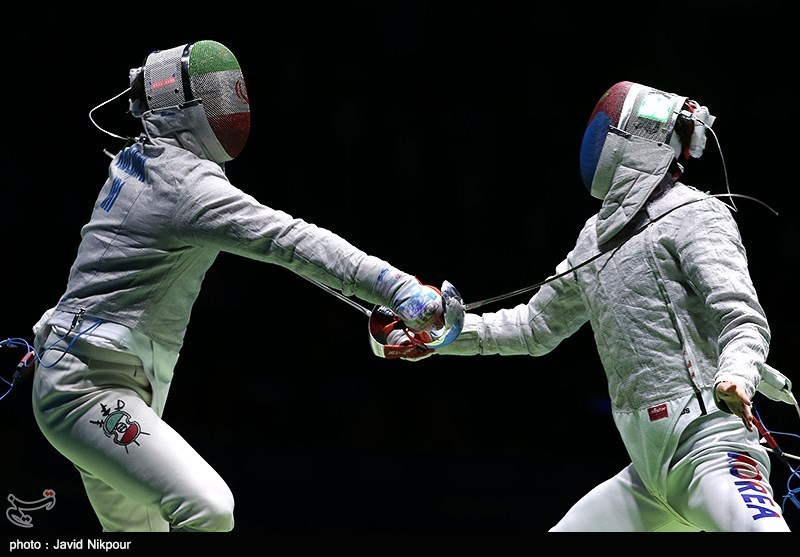 Fencing at the 2016 Summer Olympics – Men's sabre (Iranian Mojtaba Abedini)